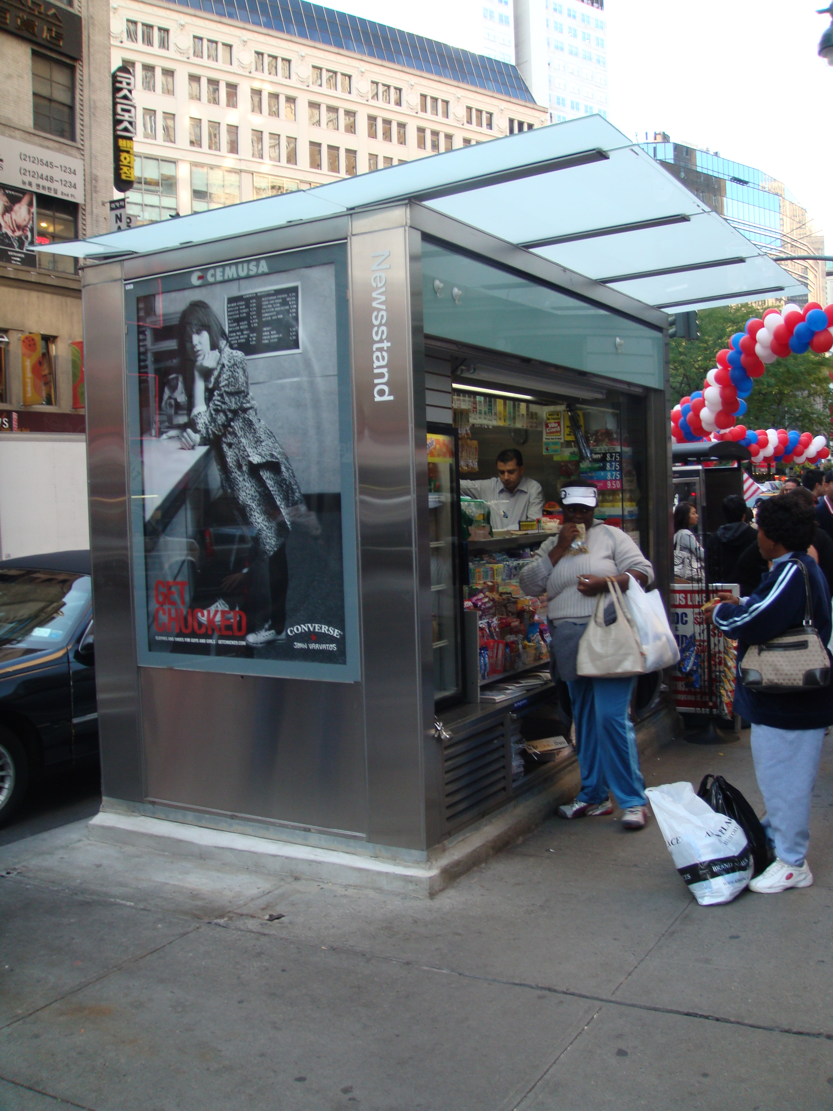 This photo is of Wikis Take Manhattan goal code S10, Newsstand.